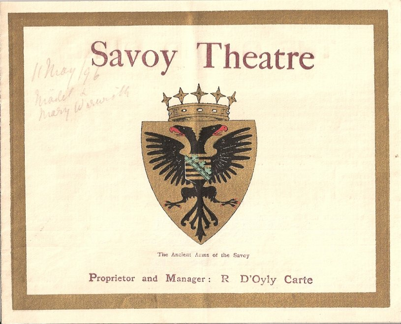 From a programme for The Grand Duke in my collection dated 11 May 1896